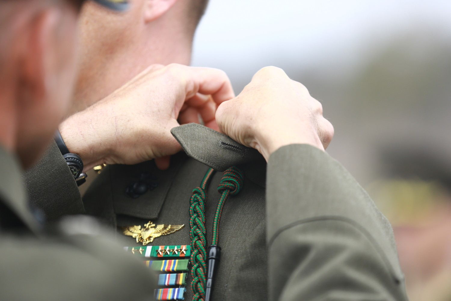 French Fourragère is a part of the history of the 5th and 6th Marine Regiments dating back to World War I. It has been worn as part of the uniform ever since WWI.